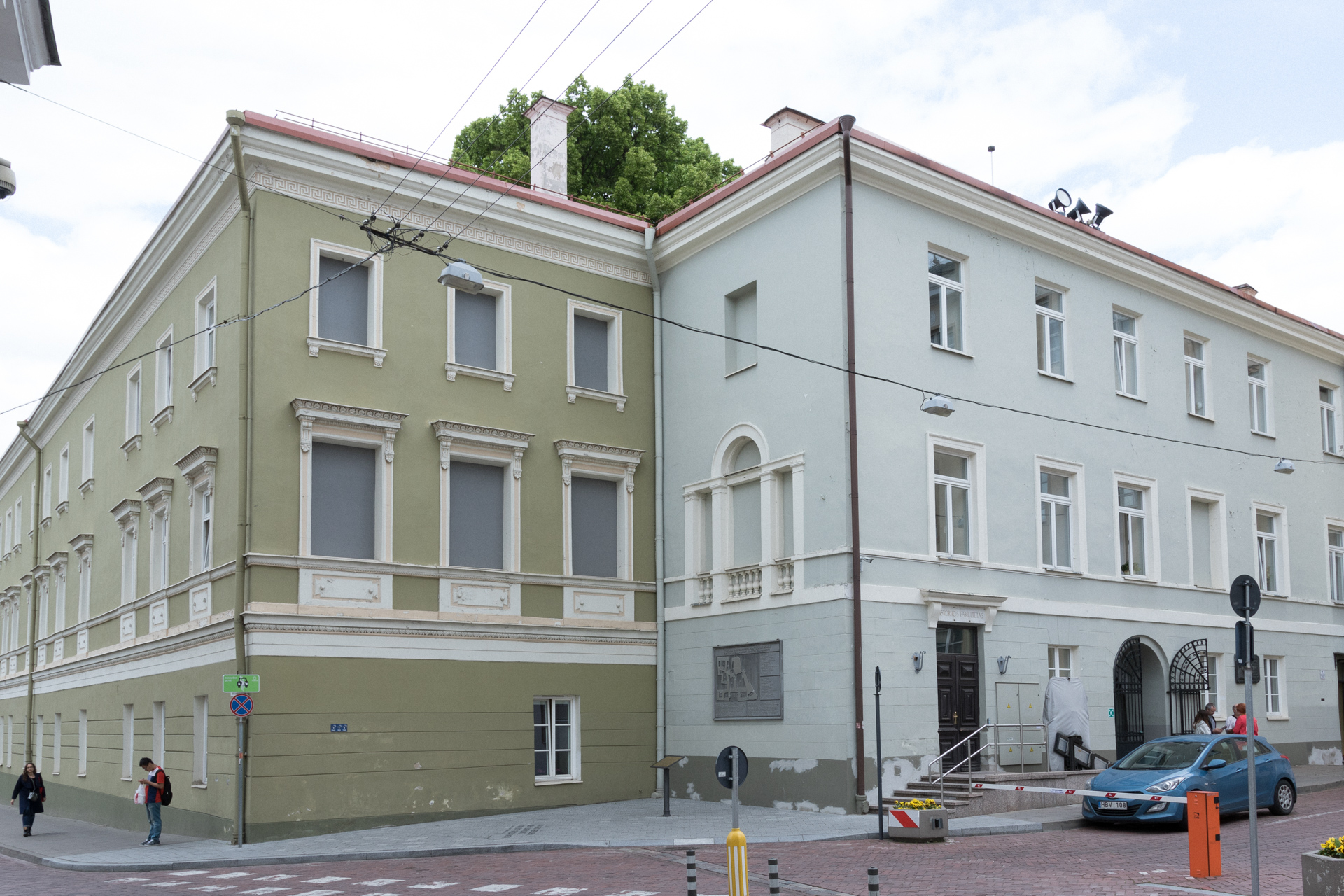 Vilnius University Faculty of History